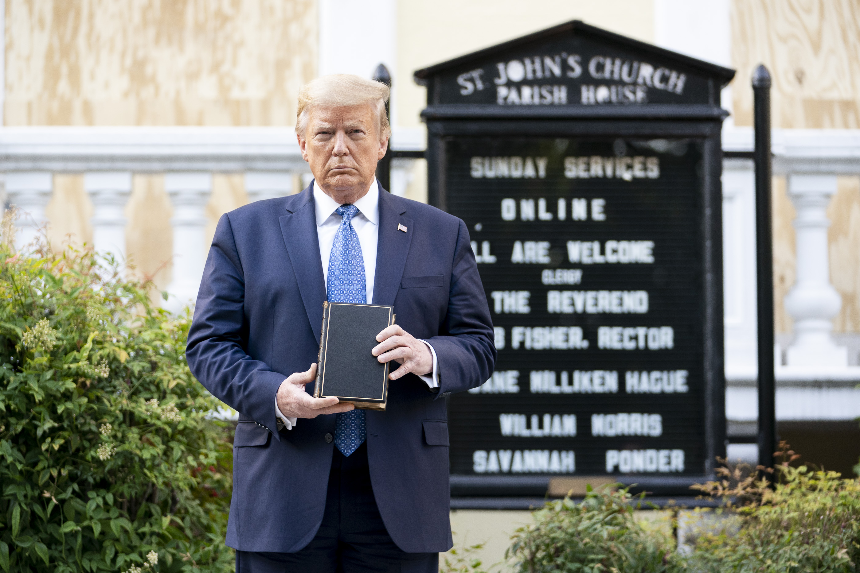 President Donald J. Trump walks from the White House Monday evening, June 1, 2020, to St. John’s Episcopal Church, known as the church of Presidents’s, that was damaged by fire during demonstrations in nearby LaFayette Square Sunday evening. (Official White House Photo by Shealah Craighead)